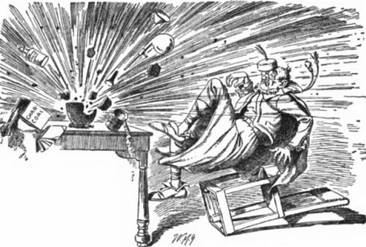 This image comes from Bill Nye's "Comic History of England". The numbers shown are the book page numbers. The text shown is the caption beneath the image. Follow the image to the link which leads to the full book